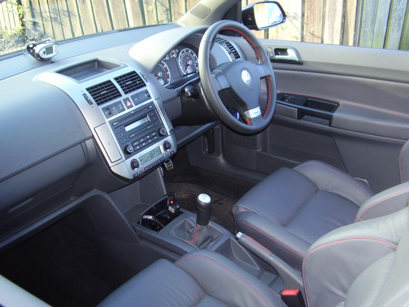 The dashboard of a Volkswagen Polo Mk4 GTI